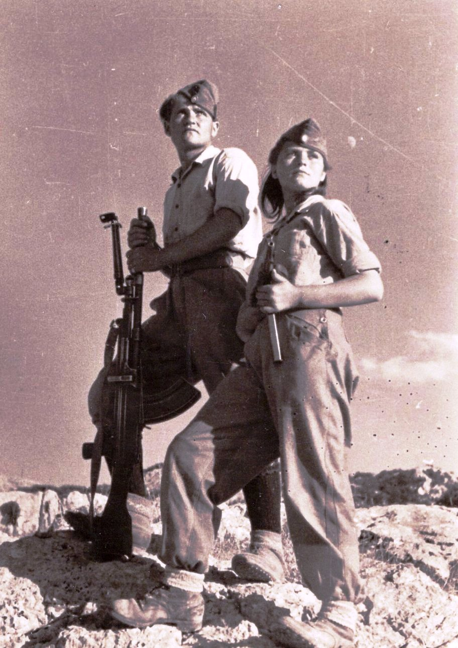 Fighters of Democratic Army of Greece This media file is produced by Wikipedian in Residence in Category:Wikipedian in Residence at DARM in 2016.